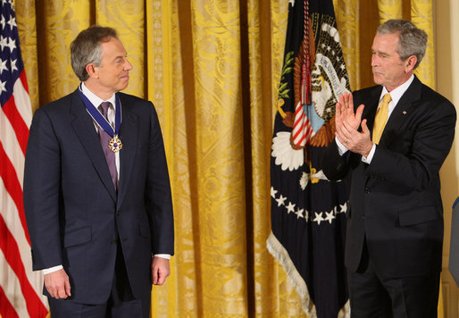 President George W. Bush applauds former Prime Minister Tony Blair after presenting him Tuesday, Jan. 13, 2009, with the 2009 Presidential Medal of Freedom during ceremonies in the East Room of the White House.